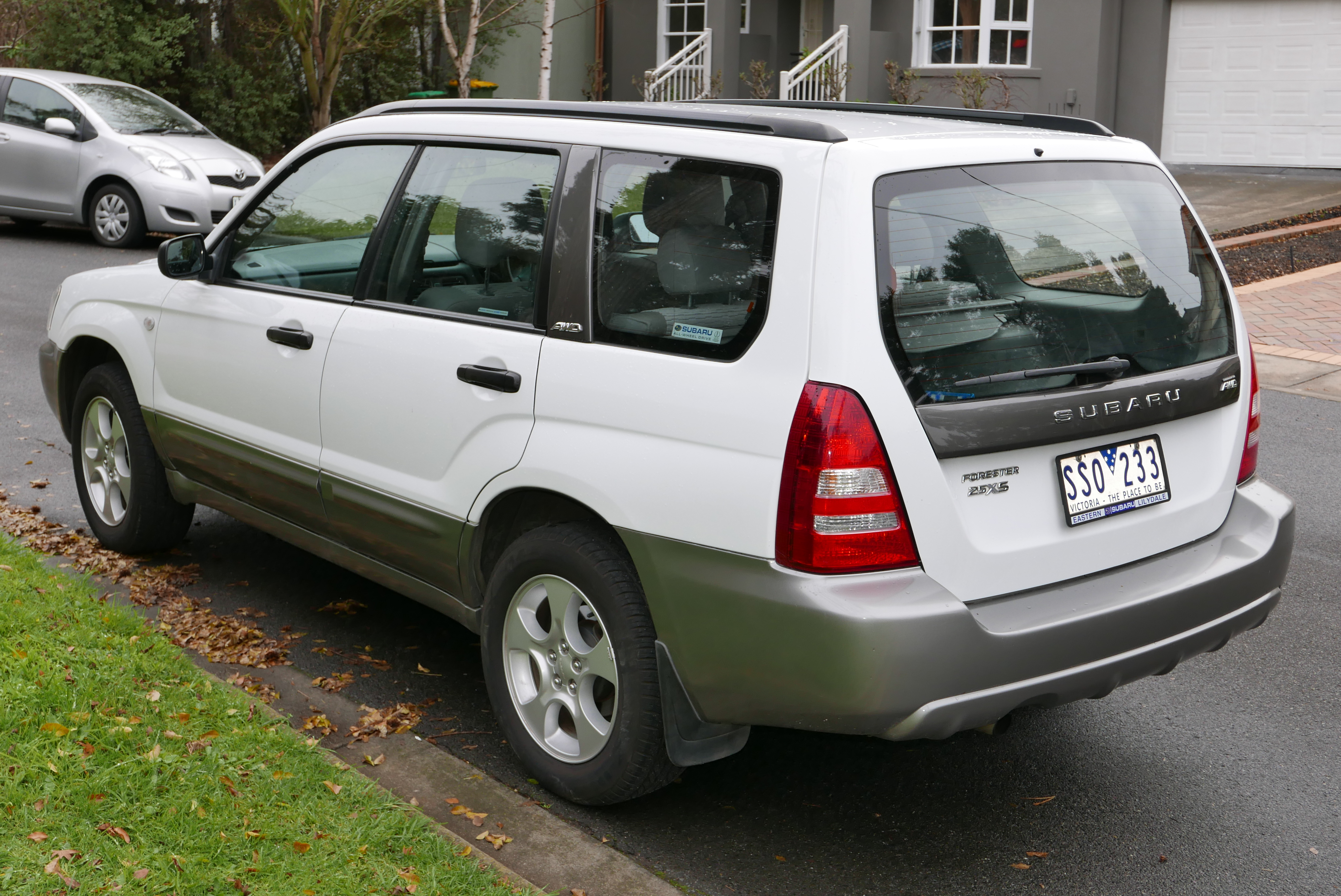 2003 Subaru Forester (SG MY04) XS wagon. Photographed in Ivanhoe, Victoria, Australia. Vehicle registration enquiry resultsJurisdictionVictoriaRegistrationSSO233Chassis codeJF2SG9KK44G032087Engine codeC070098Compliance date2004-03Year of manufacture2003 (not a typo)